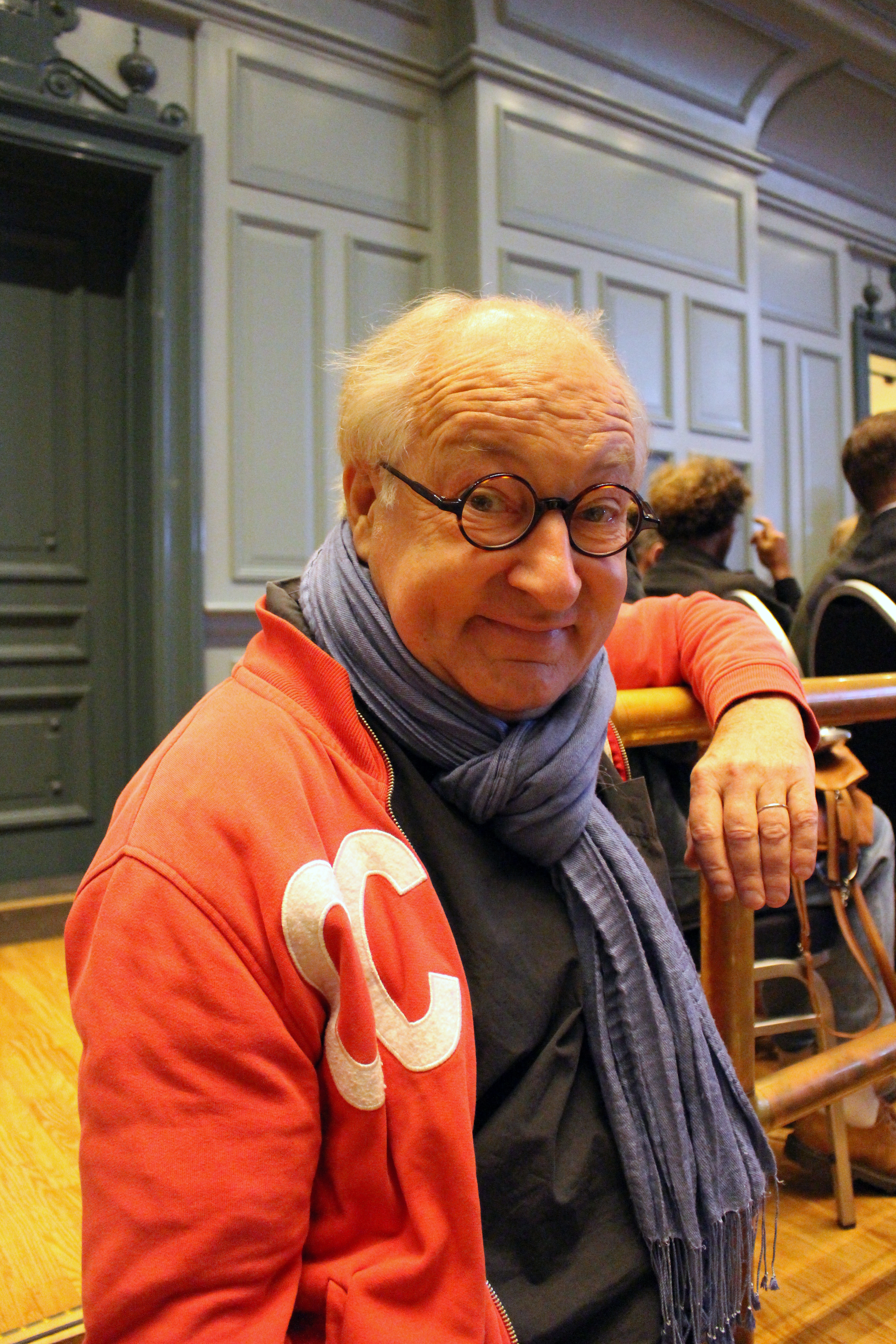 Youp van 't Hek at the Nederlandse Ig Nobel Night, 2013. Here he held a 24/7 lecture as the Cultural Professor of the TU Delft